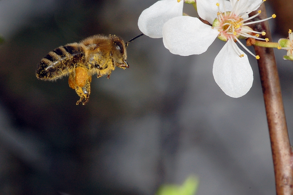 Western honey bee, Apis mellifera, Schwanheimer Dune, Frankfurt/Main, Germany